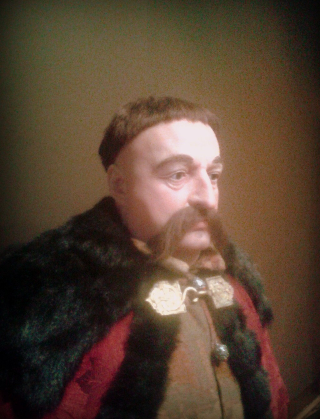 Jan III Sobieski figure in Museum of Polish Army in Warsaw